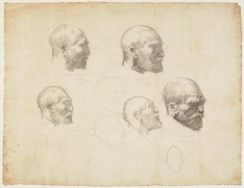 Five studies of Vincent van Gogh, drawing by John Peter Russell, fine conté on cream laid paper, 47.0 x 62.0 cm (sheet)